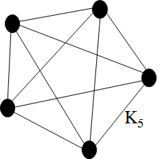 Nguyên lý 1